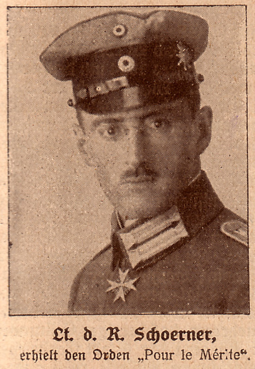 German Lieutenant Ferdinand Schoerner (WW1)